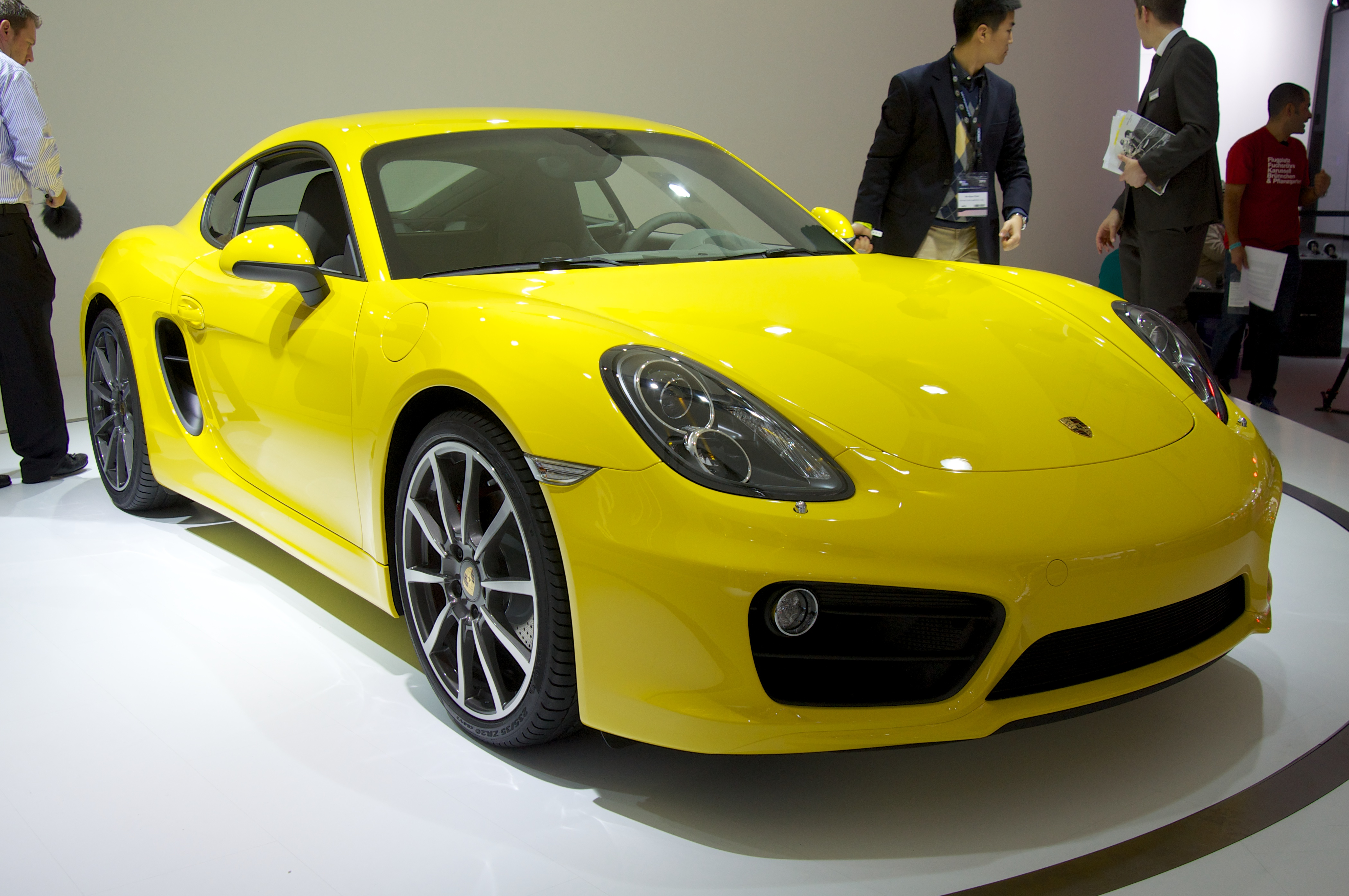 Seen at the 2012 Los Angeles Auto Show. Press day - Wednesday, November 28th. If you use one of my photos, please be so kind as to attribute me and link back to the photo's page. THANK YOU!